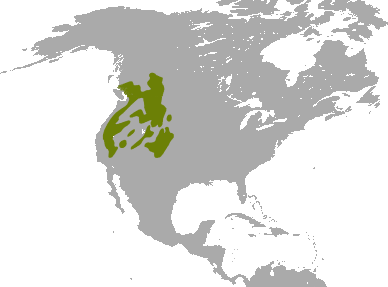 American Pika (Ochotona princeps) range